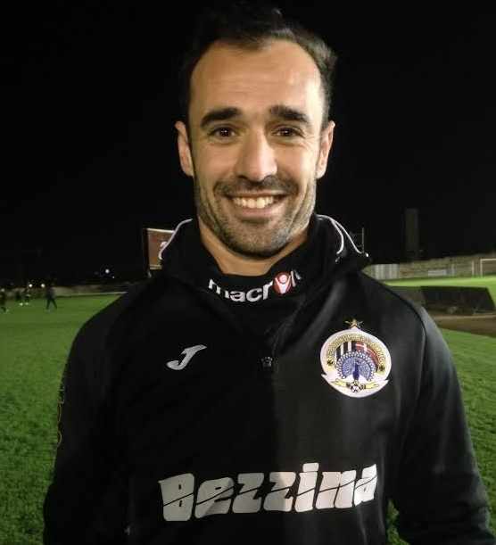 At the first training for the new club.